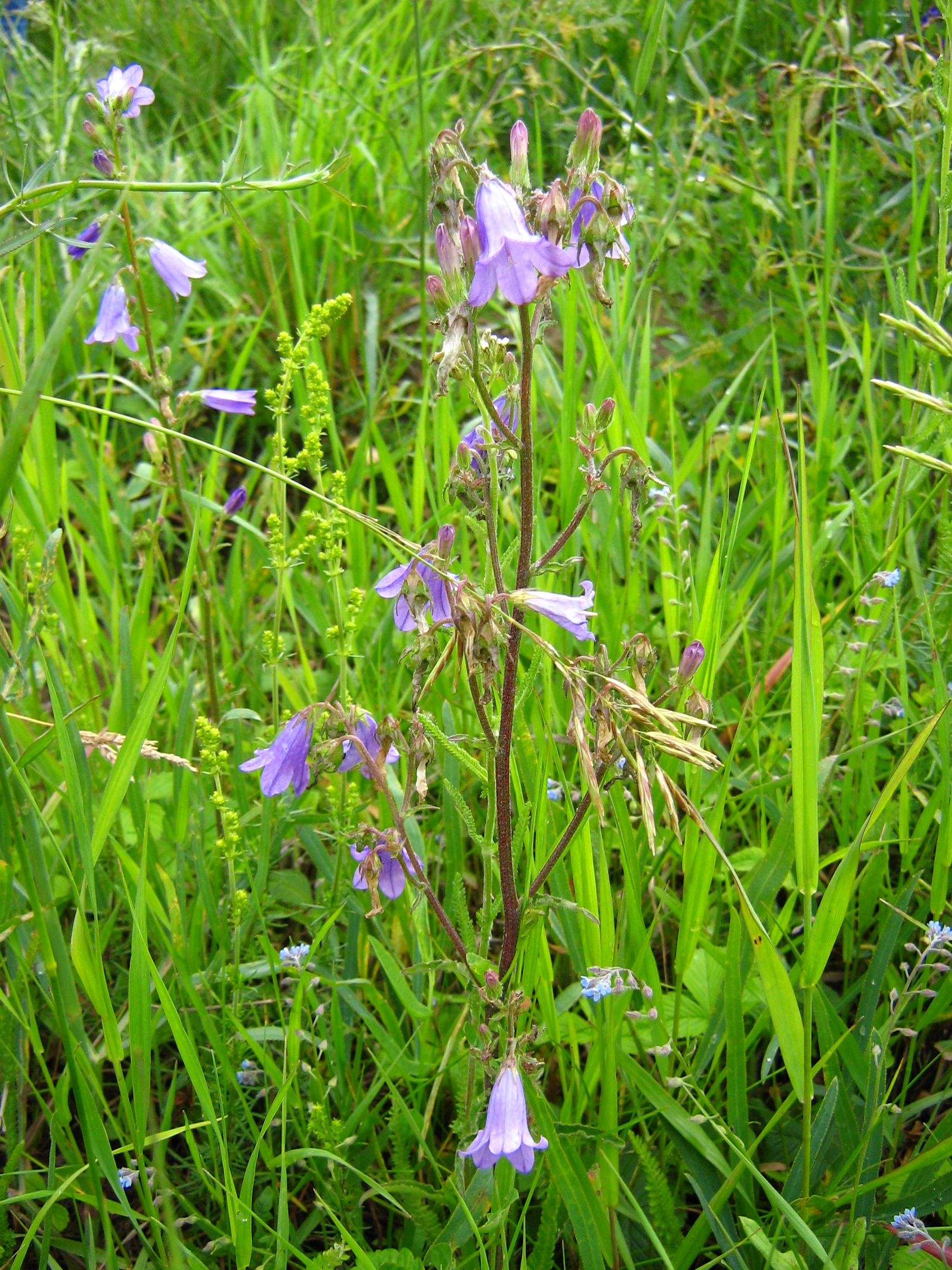 Campanula sibirica in Nature Reserve "Zbocza Plutowskie". Poland.